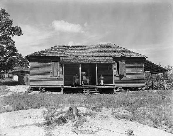 TITLE: Home of cotton sharecropper Floyd Borroughs. Hale County, Alabama CALL NUMBER: LC-USF342- 008128-A [P&P] REPRODUCTION NUMBER: LC-USF342-T01-008128-A (b&w film dup. neg.) MEDIUM: 1 negative : nitrate ; 8 x 10 inches or smaller. CREATED/PUBLISHED: [1935 or 1936] CREATOR: Evans, Walker, 1903-1975, photographer. NOTES: Title and other information from caption card. LOT 1604 (Location of corresponding print.) Transfer; United States. Office of War Information. Overseas Picture Division. More information about the FSA/OWI Collection is available at TOPICS: Floyd Burroughs--Alabama SUBJECTS: United States--Alabama--Hale County. FORMAT: Nitrate negatives. PART OF: Farm Security Administration - Office of War Information Photograph Collection REPOSITORY: Library of Congress Prints and Photographs Division Washington, DC 20540 DIGITAL ID: (digital file from T01 duplicate negative) fsa 8c52238 OTHER NUMBER: E 4166 CONTROL #: fsa1998020938/PP